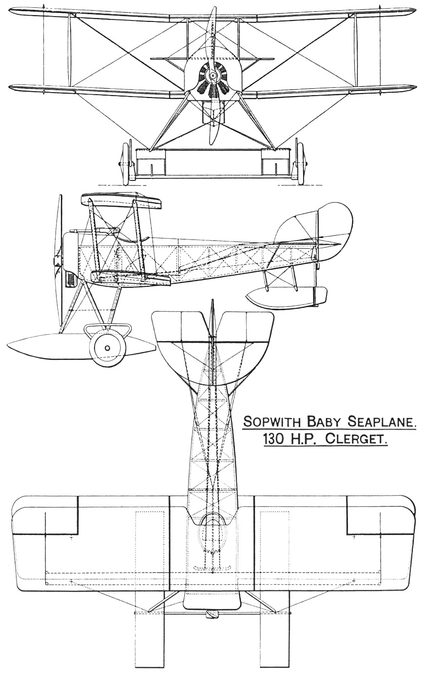 Sopwith Baby British First World War single seat floatplane biplane reconnaissance aircraft drawing